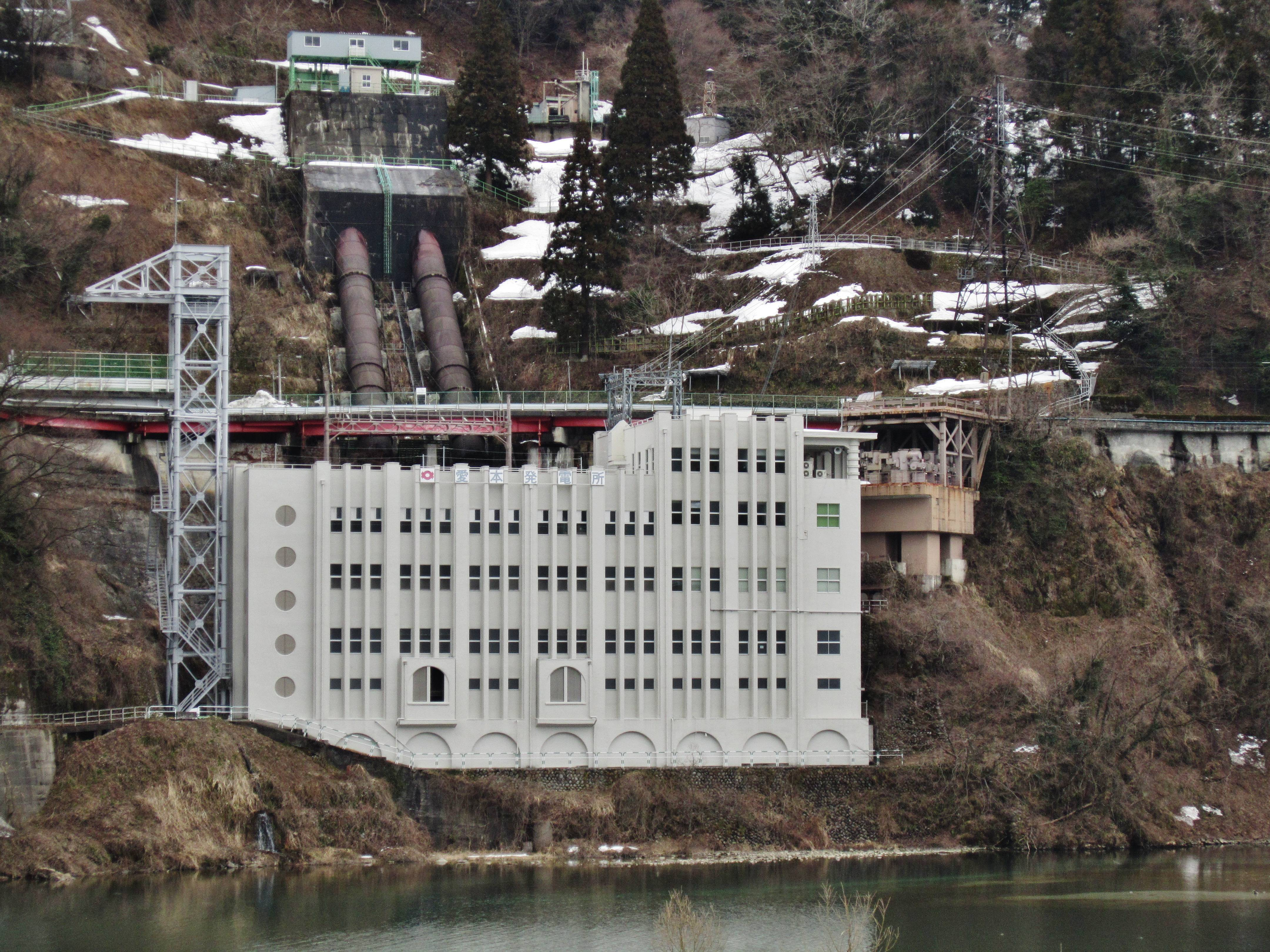 Aimoto power station.